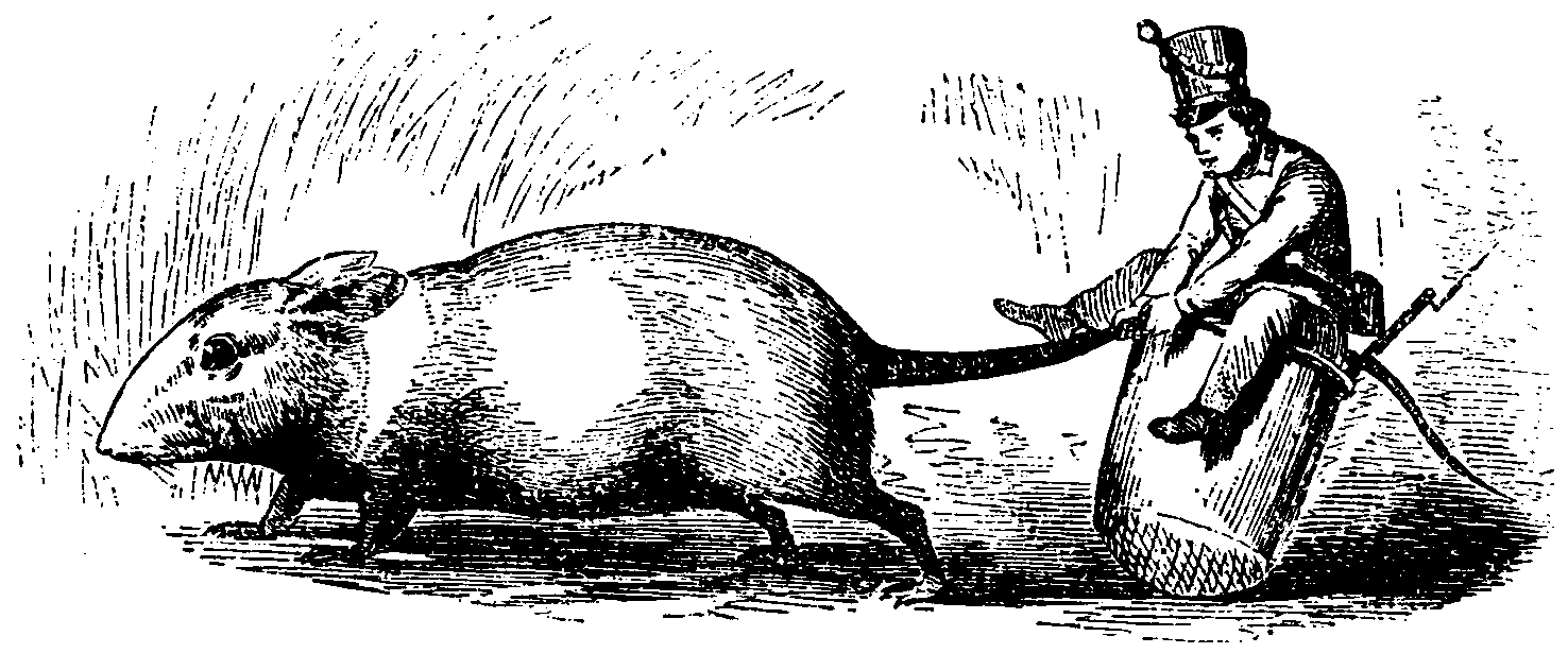 The Steadfast Tin Soldier